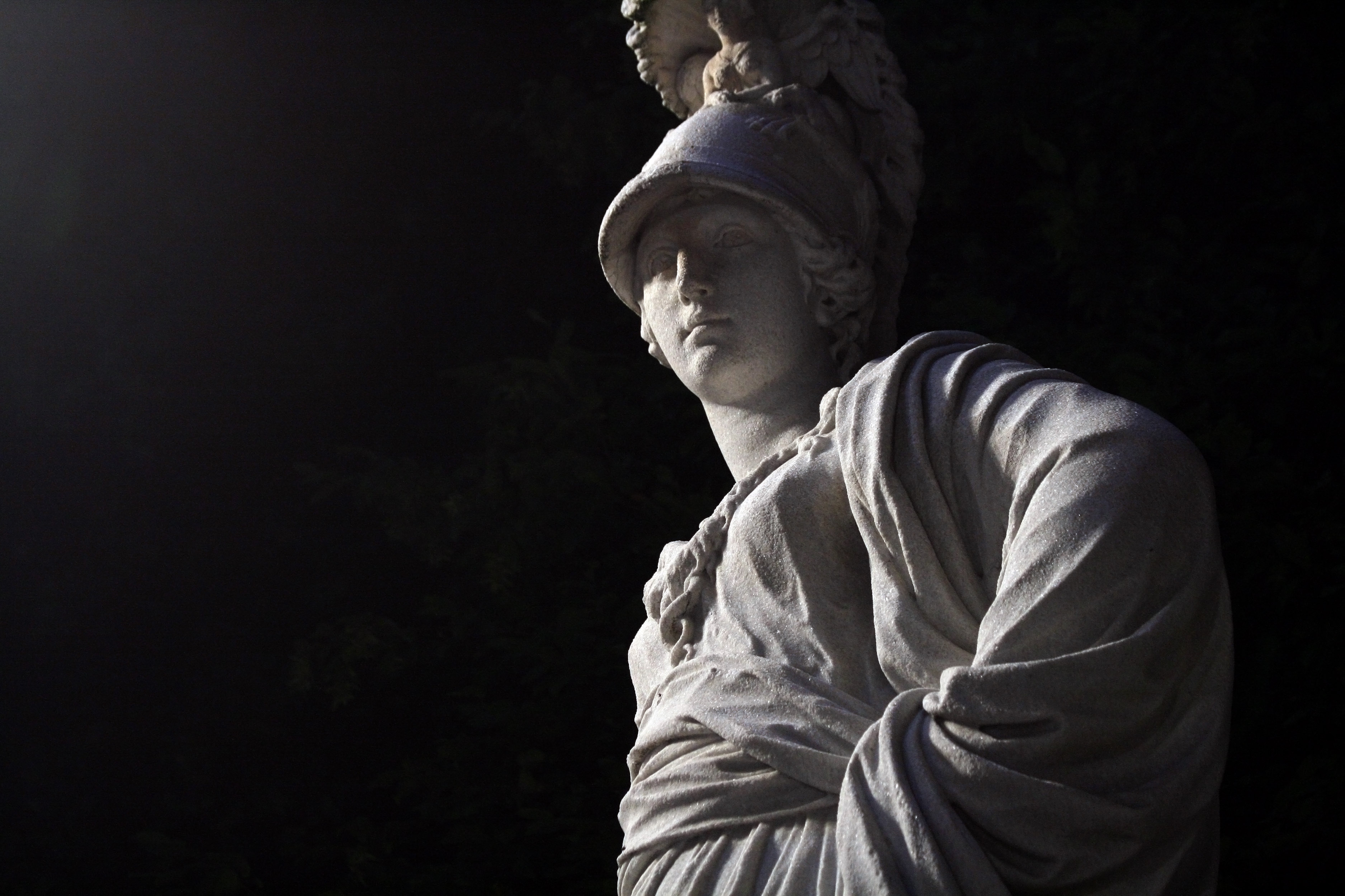 Schönbrunn Palace and Gardens, Vienna, Austria: Statue of Aspasia (see also Sculptures in the Schönbrunn Garden) during the Summer Night Concert of the Vienna Philharmonic Orchestra).